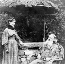 Juliette and husband Charles Sanders Peirce by the well at their home Arisbe in Milford, Pennsylvania, in their later years.